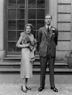 Adele Cavendish (Marquise von Hartington, born as Adele Astaire), together with husband Lord Charles Cavendish.